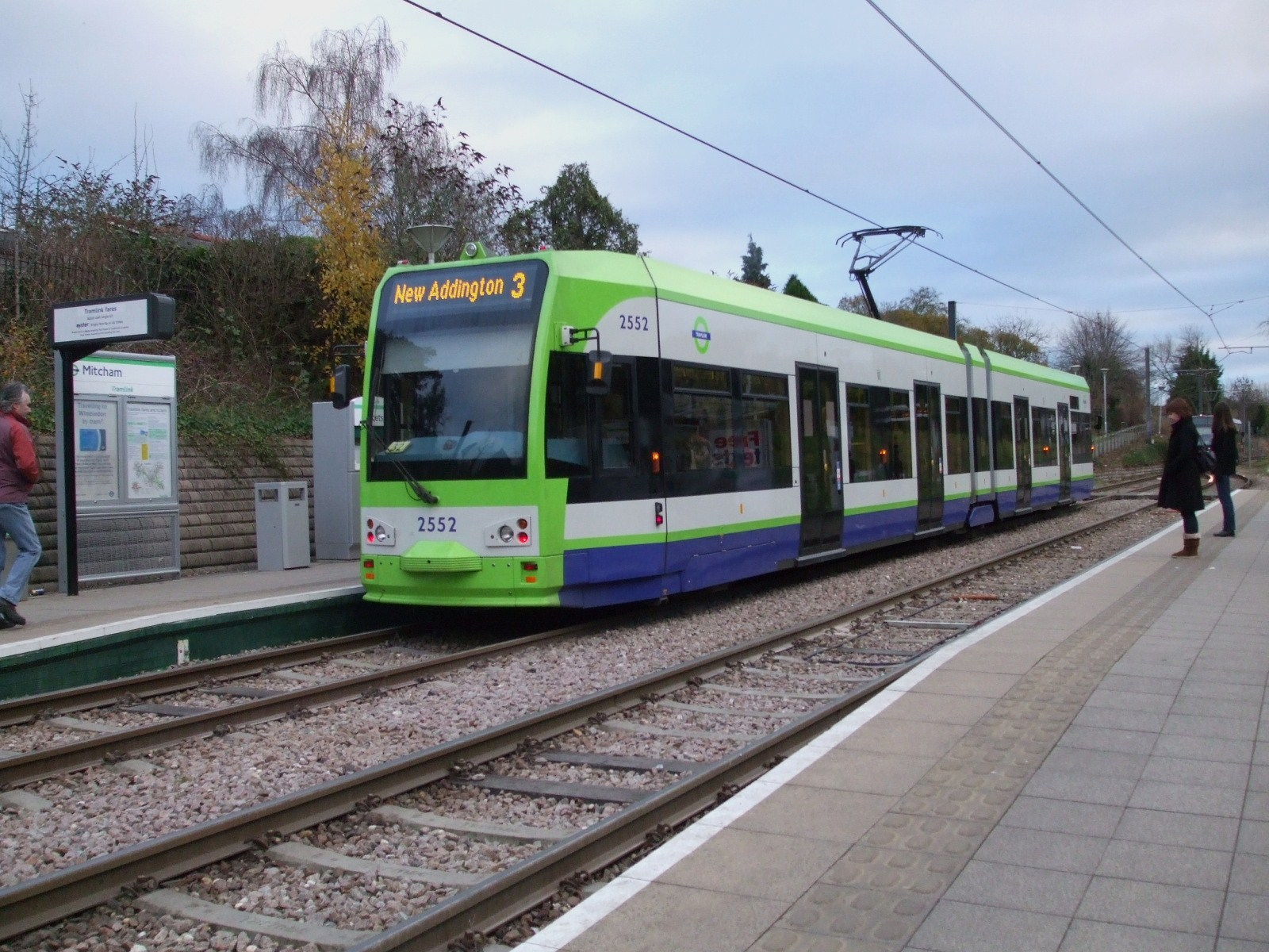 Tram 2552 calls at Mitcham tramstop with an eastbound service to New Addington